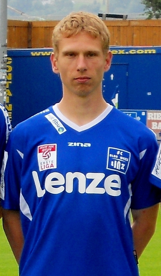 David Poljanec as a player player of FC Blau-Weiss Linz, during a photo shoot on 3 July 2011 at the Donaupark-Stadion in Linz